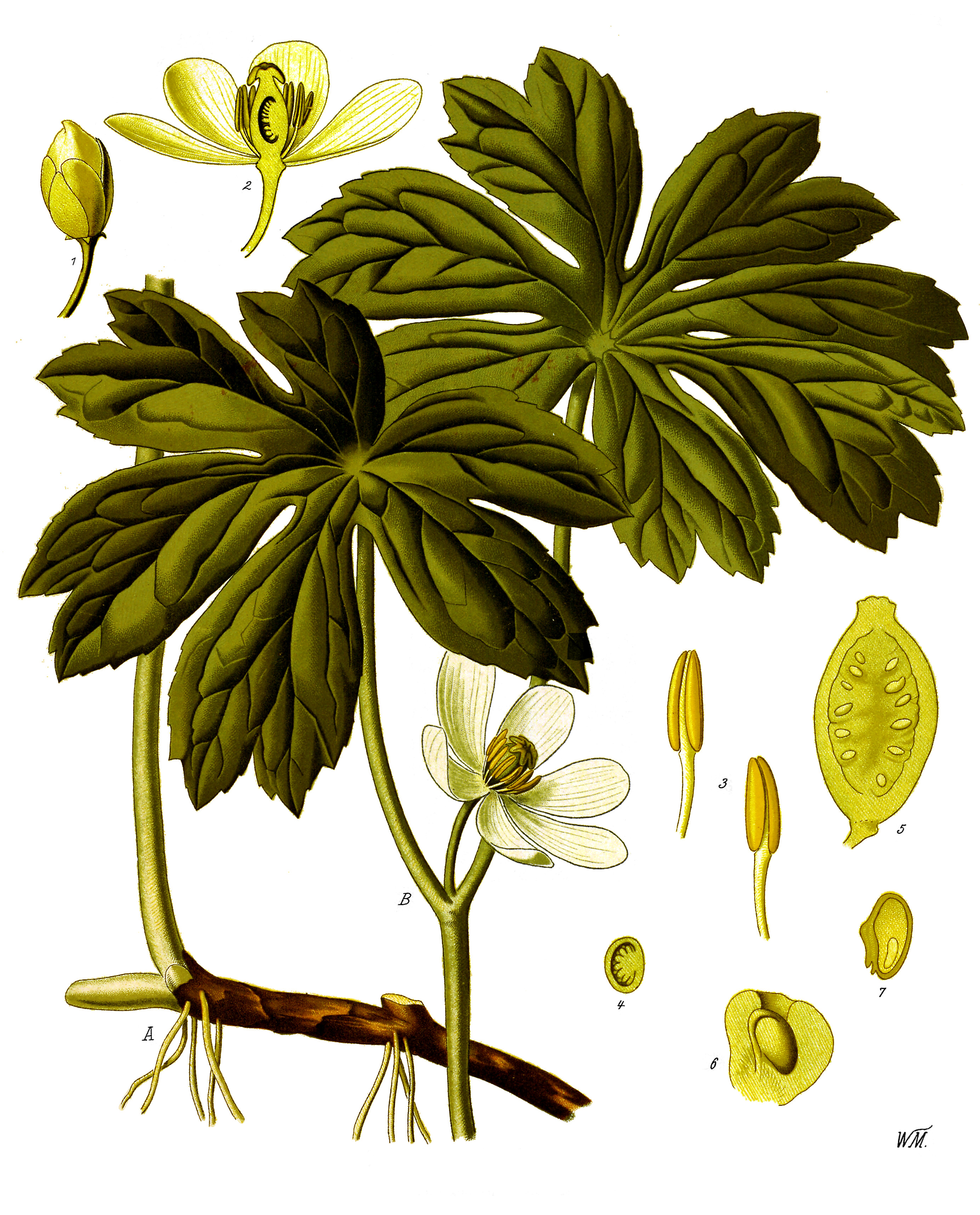 Without captions.